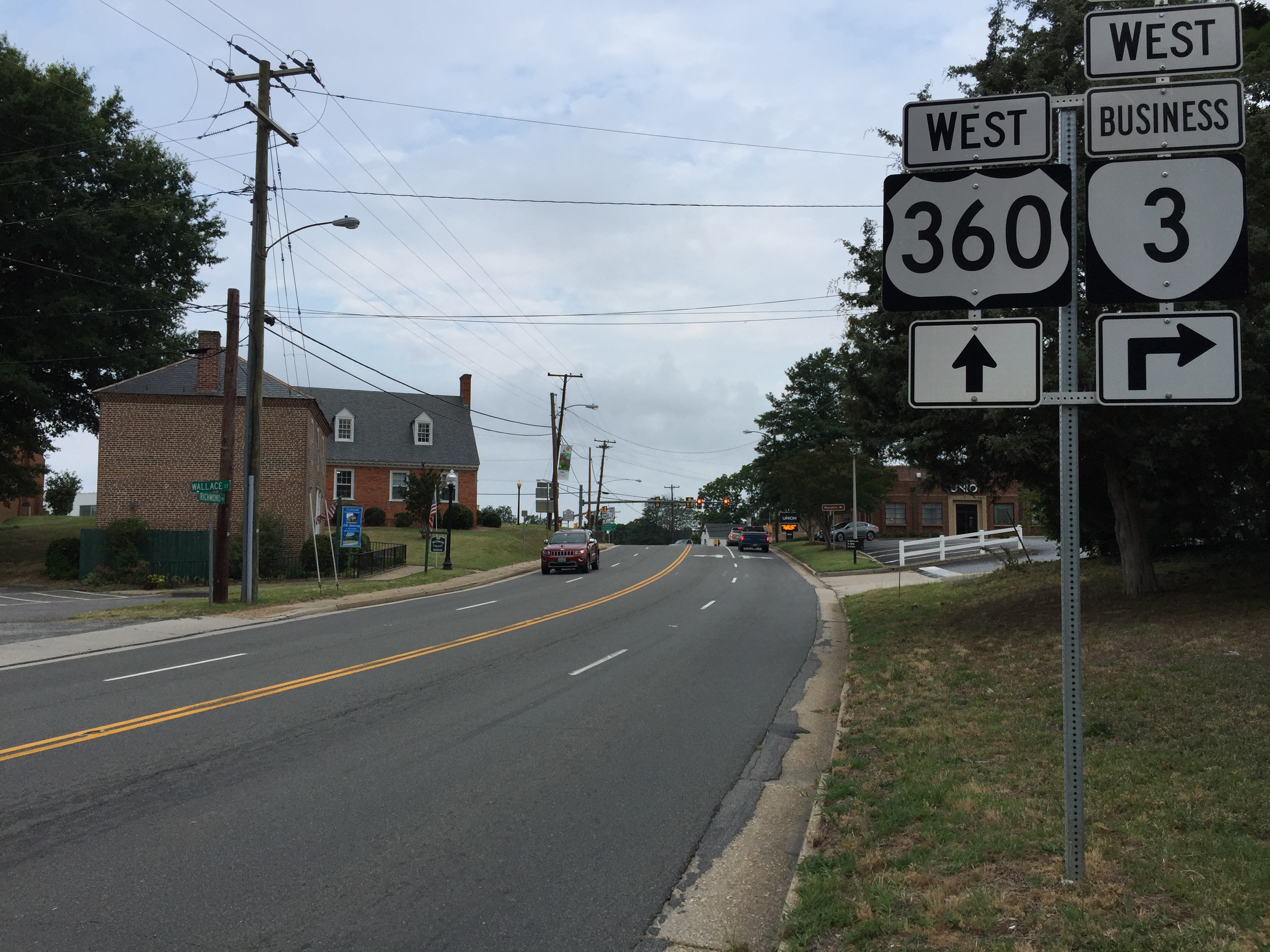 View west along U.S. Route 360 and Virginia State Route 3 Business (Richmond Road) at Wallace Street in Warsaw, Richmond County, Virginia